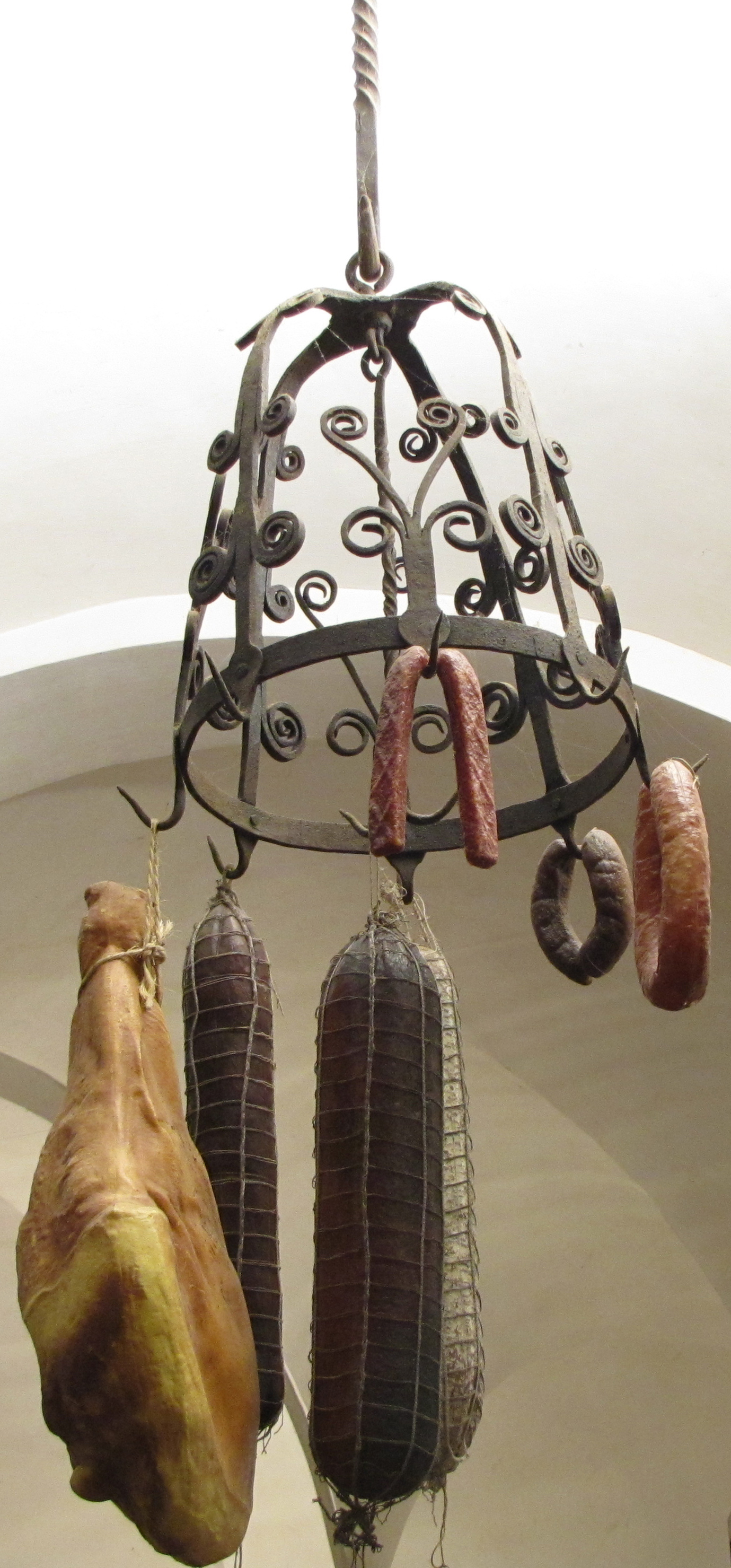 Smoked meats hung at a "Dutch crown" at the ceiling, 16th century. At the Gourmet museum of Hermalle-sous-Huy near Liège, Belgium. Please, note that this name, "Dutch crown", common used in English is incorrect because this object is not typically Dutch ! The correct name is "couronne d'office" in French translated by circlet of pantry in English. Thank you.